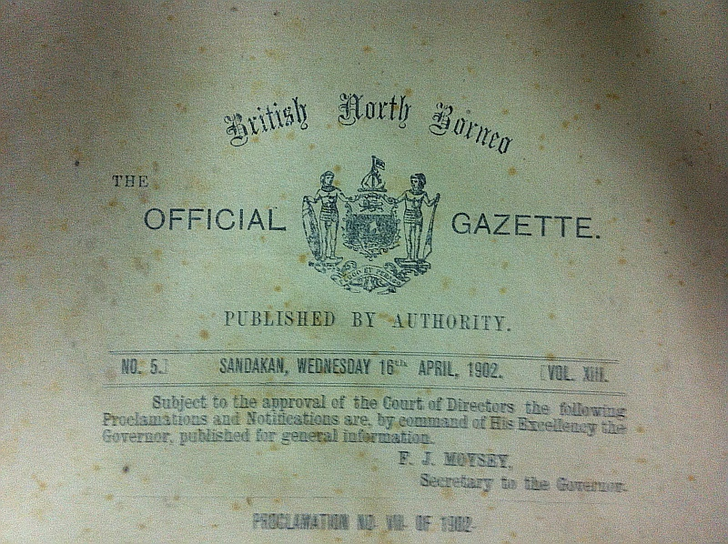 British North Borneo Official Gazette, Vol. VIII, No. 5, 1902, Sandakan, 16. April 1902